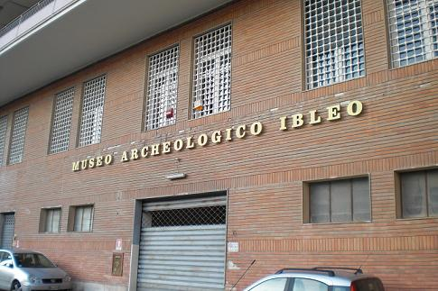 The "Sign" of the Archeological Iblean Museum of Ragusa, Sicily.